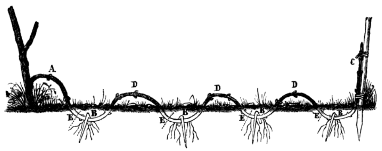 Layering